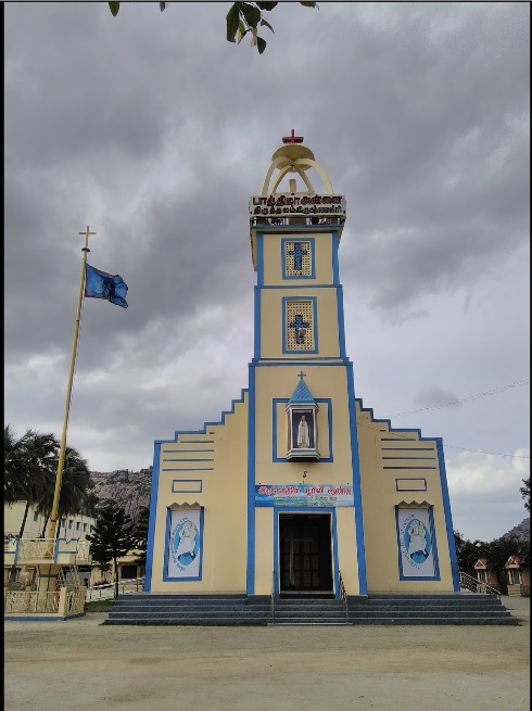 Our Lady of Fatima Church Krishnagiri front view